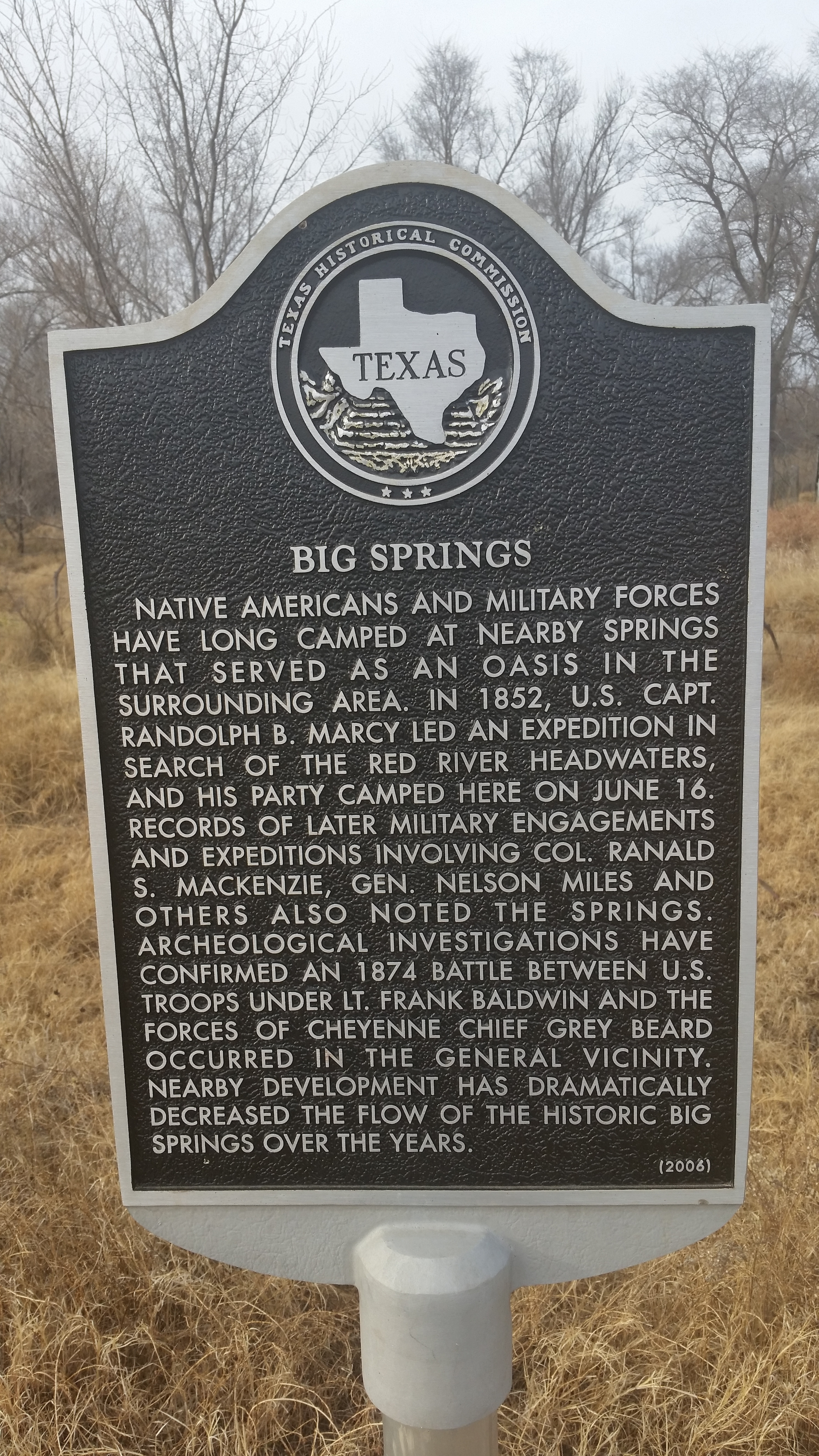 Big Springs, Texas